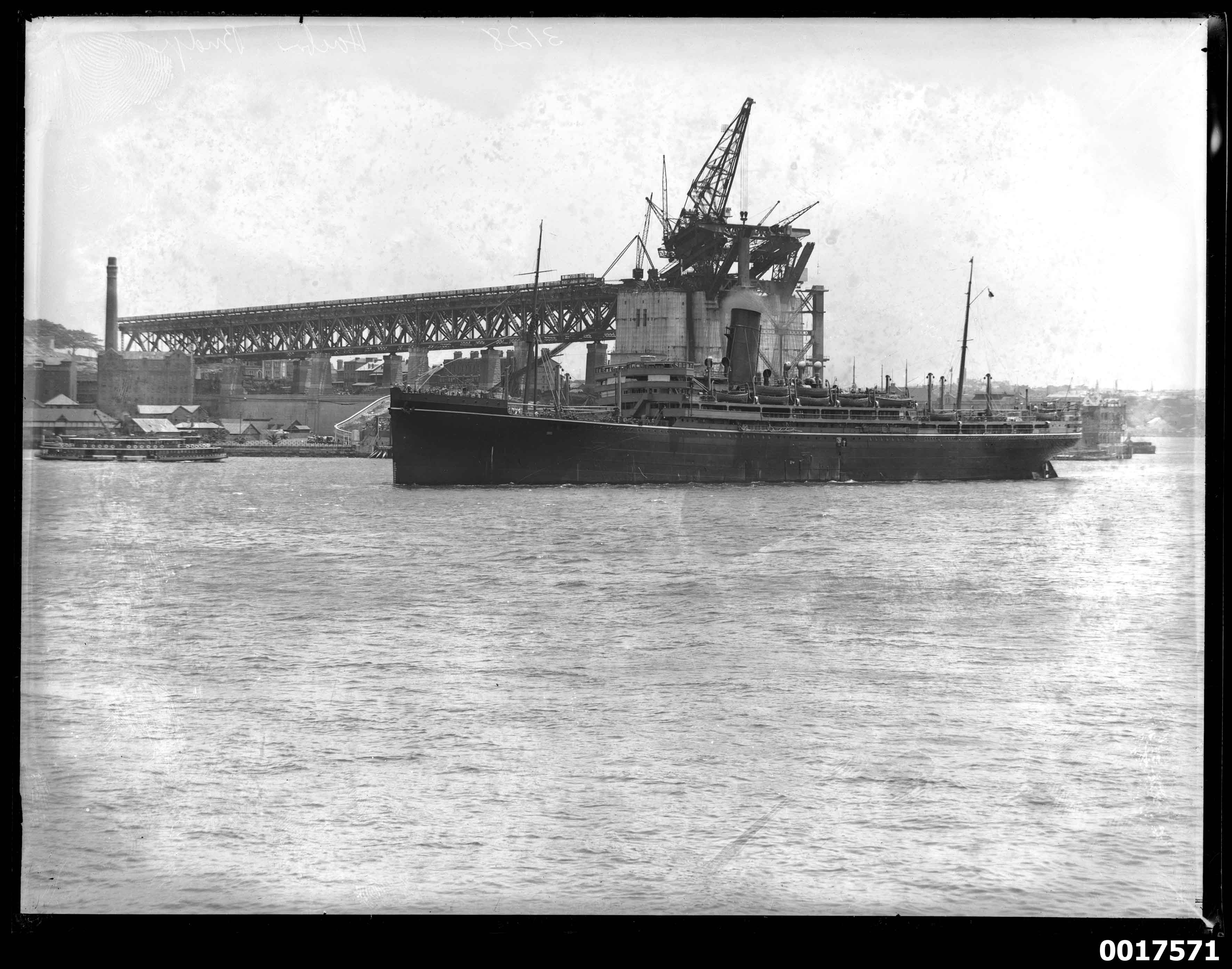 SS Mongolia